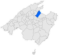 Poble de Muro, Mallorca.